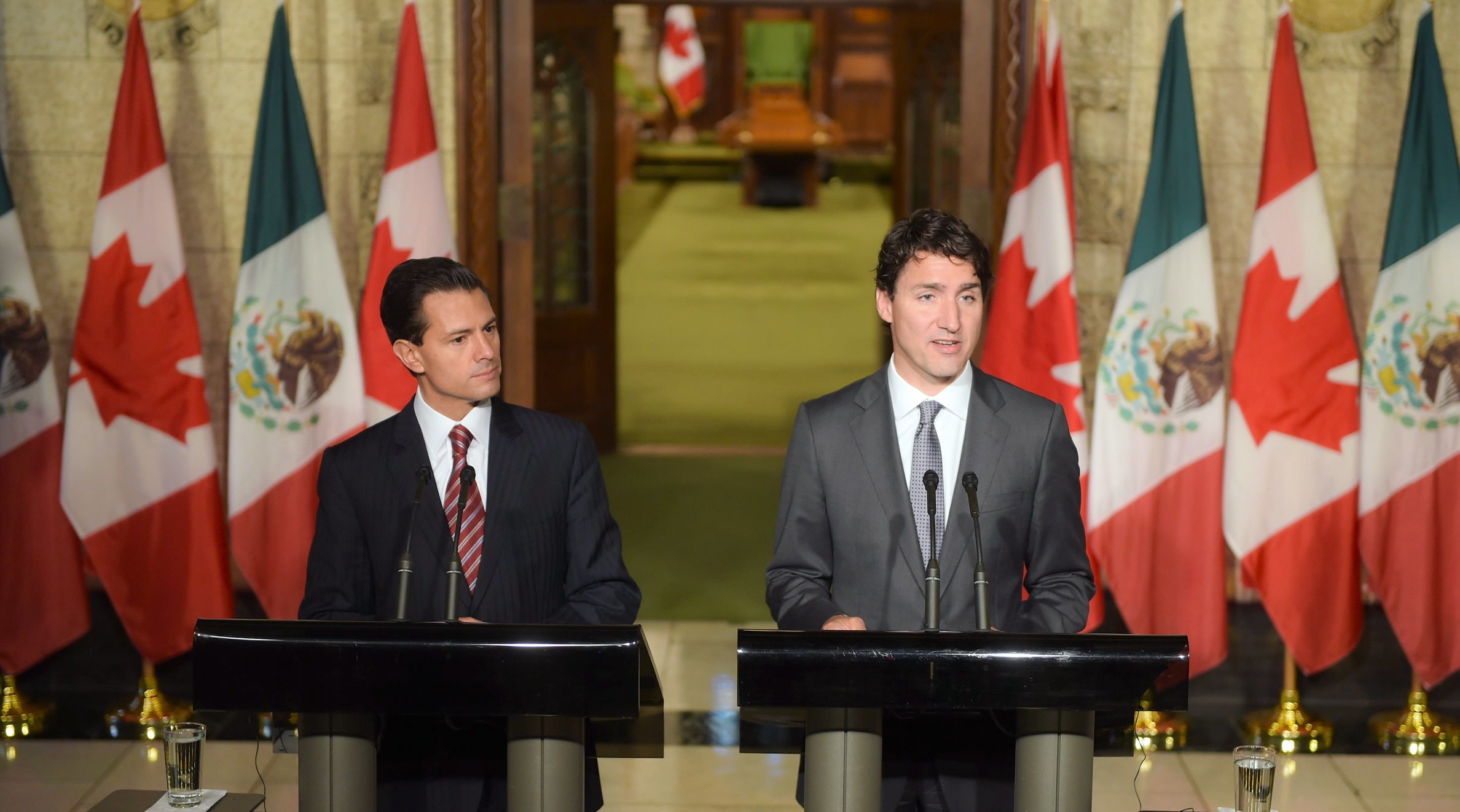 Enrique Pena Nieto and Justin Trudeau in 2016.